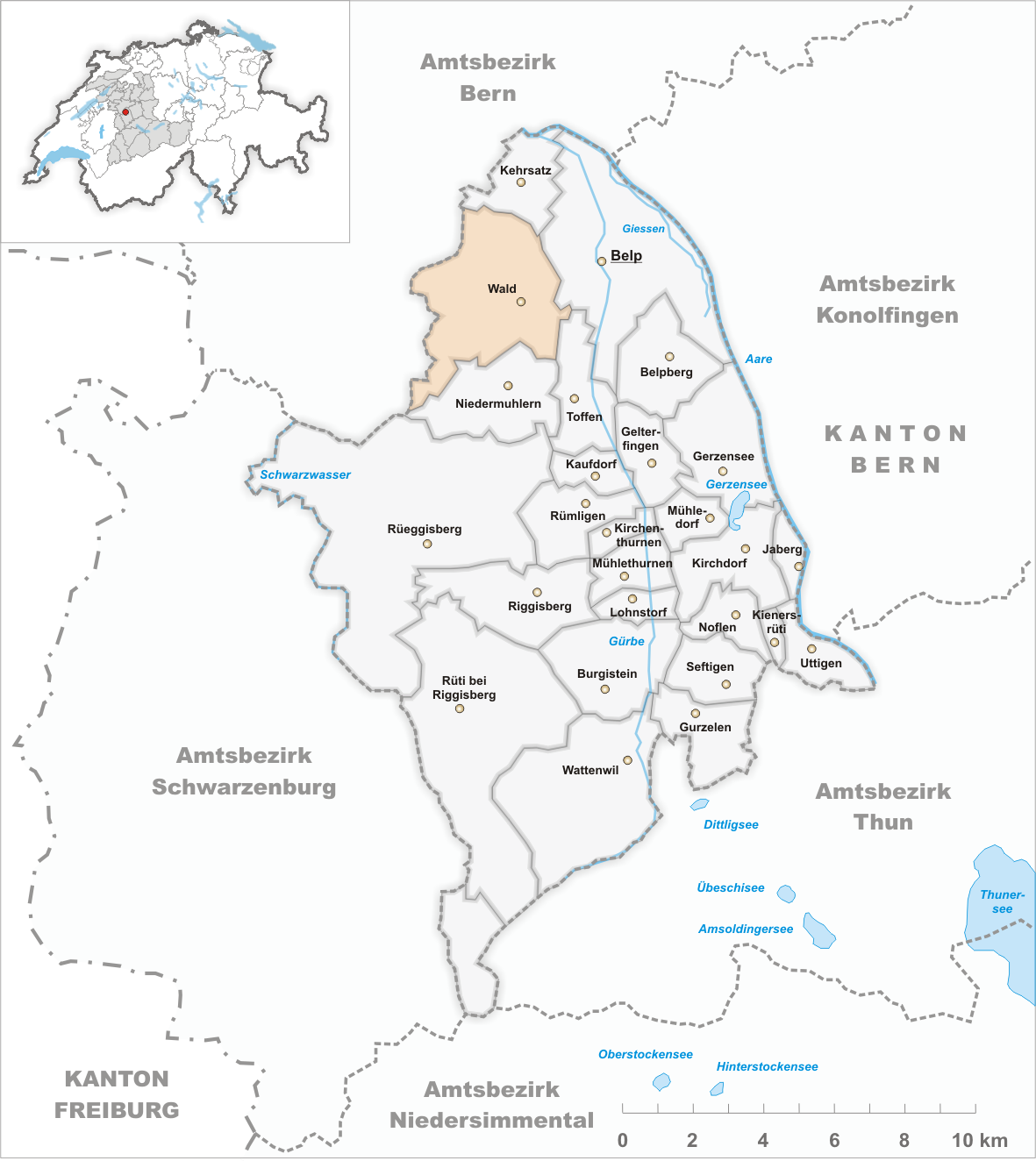 Municipality Wald